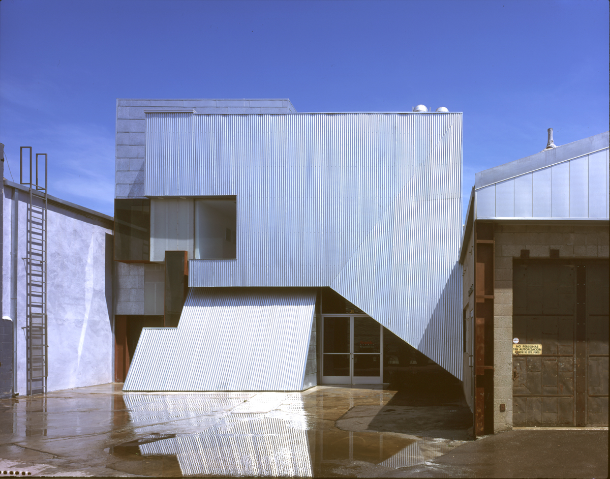 Bergamot Station Arts Center by Lawrence Scarpa. View of the mixed-use loft building from inside Bergamot Station.